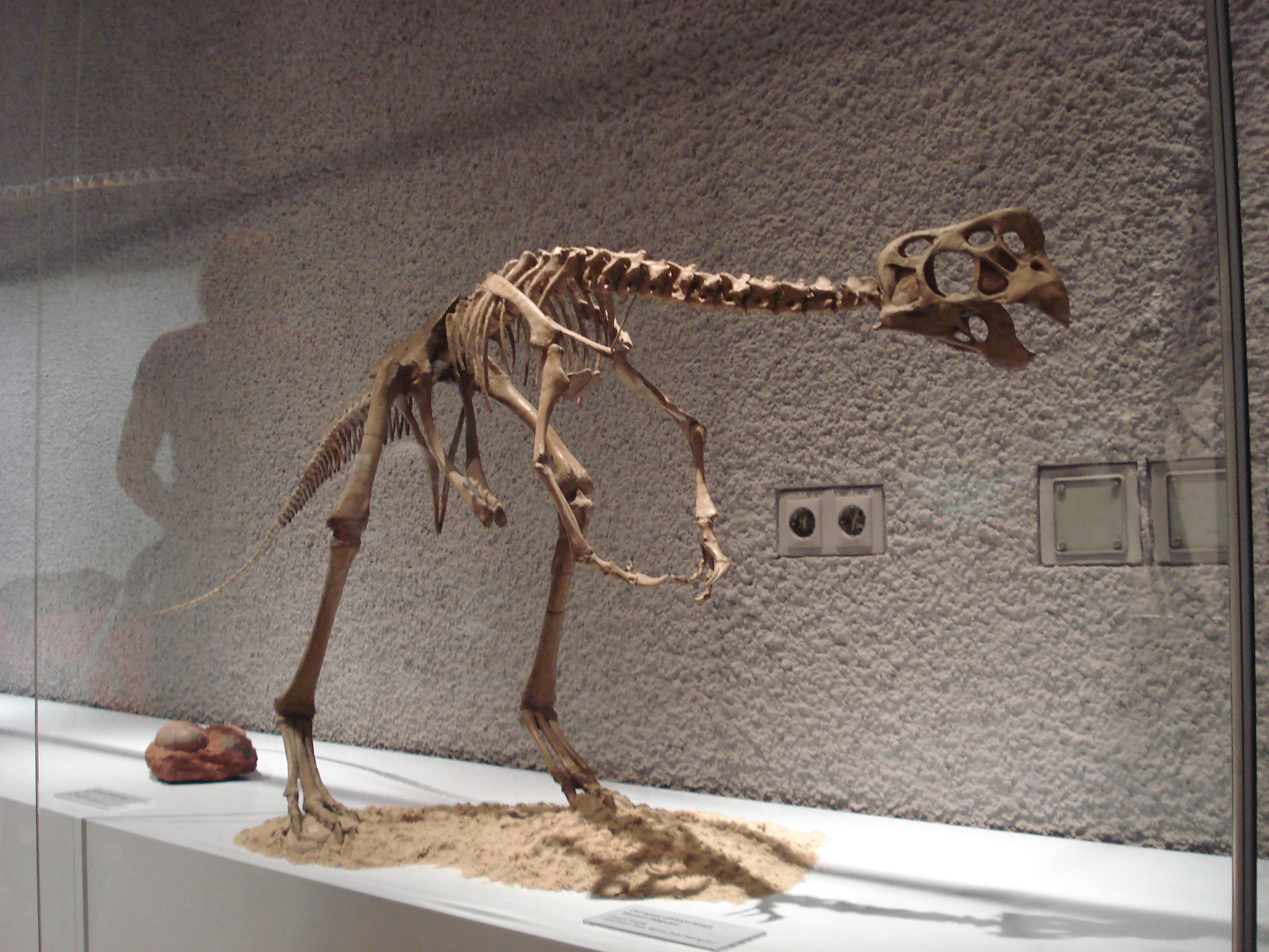 fossil of oviraptor